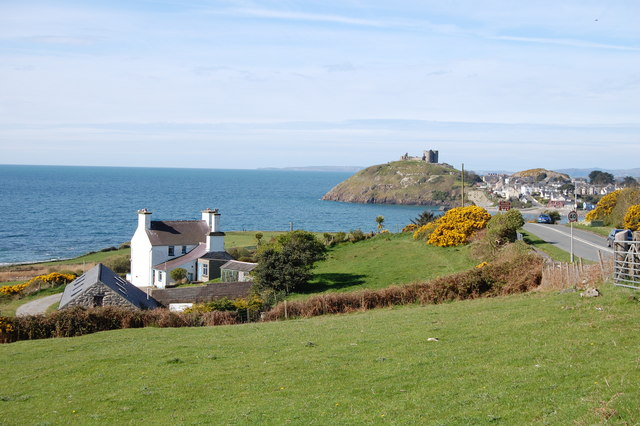 Cricieth/Criccieth - Ffordd Porthmadog